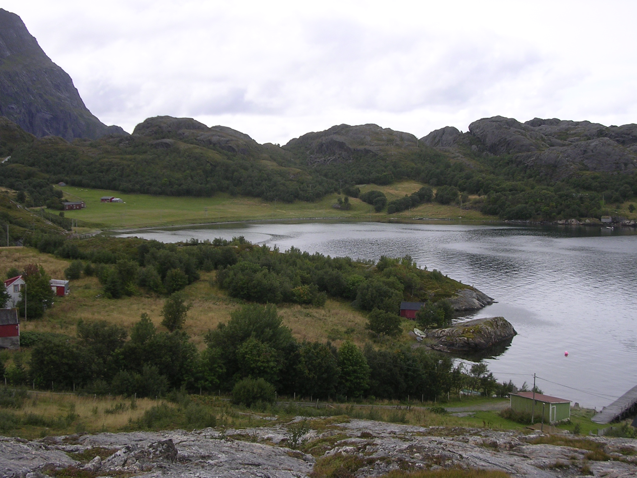 from Valvika on island Tomma